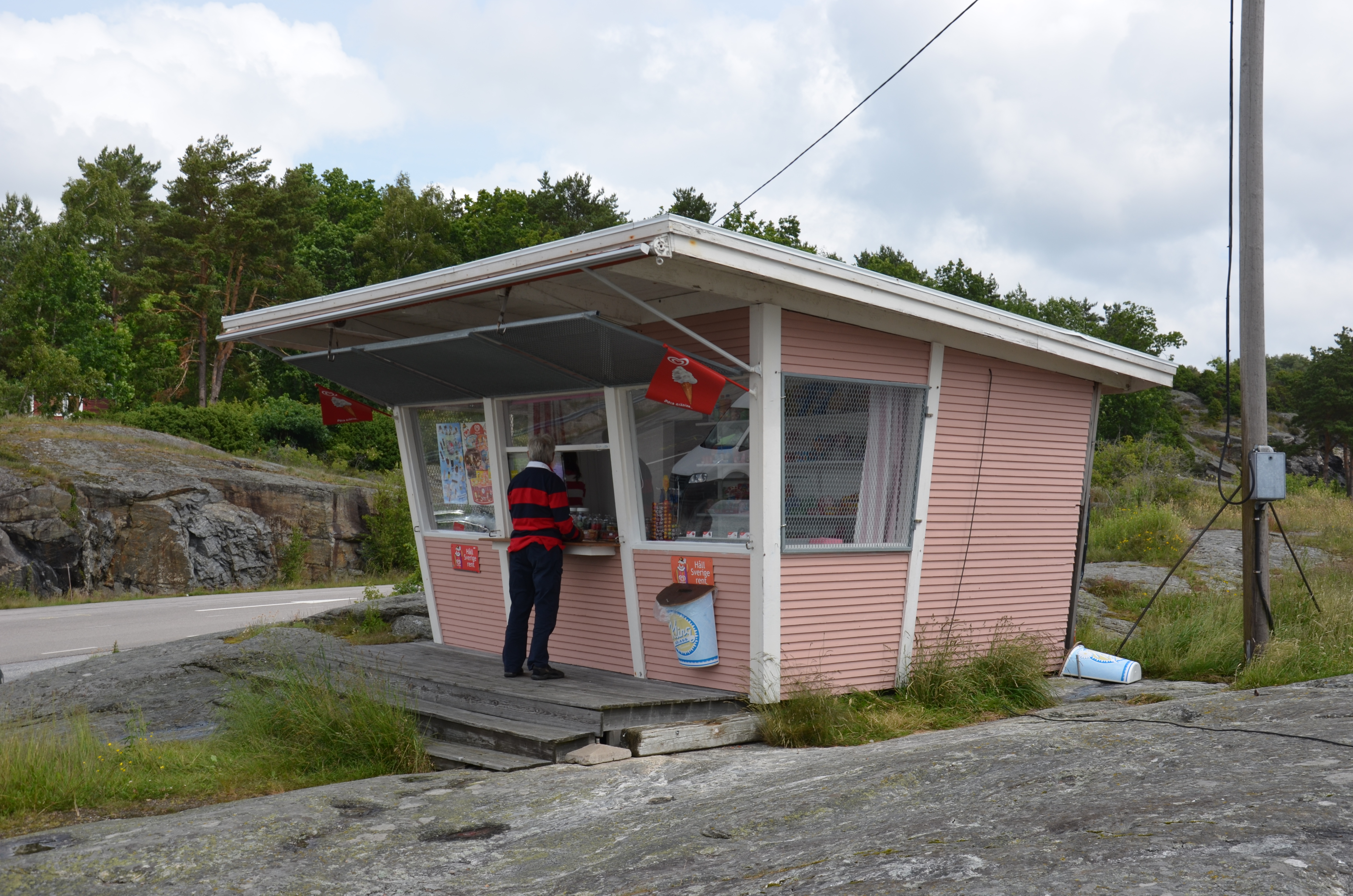 Kiosk från 1950-talet vid färjeläget Fruvik, Dragsmarks socken, Bohuslän